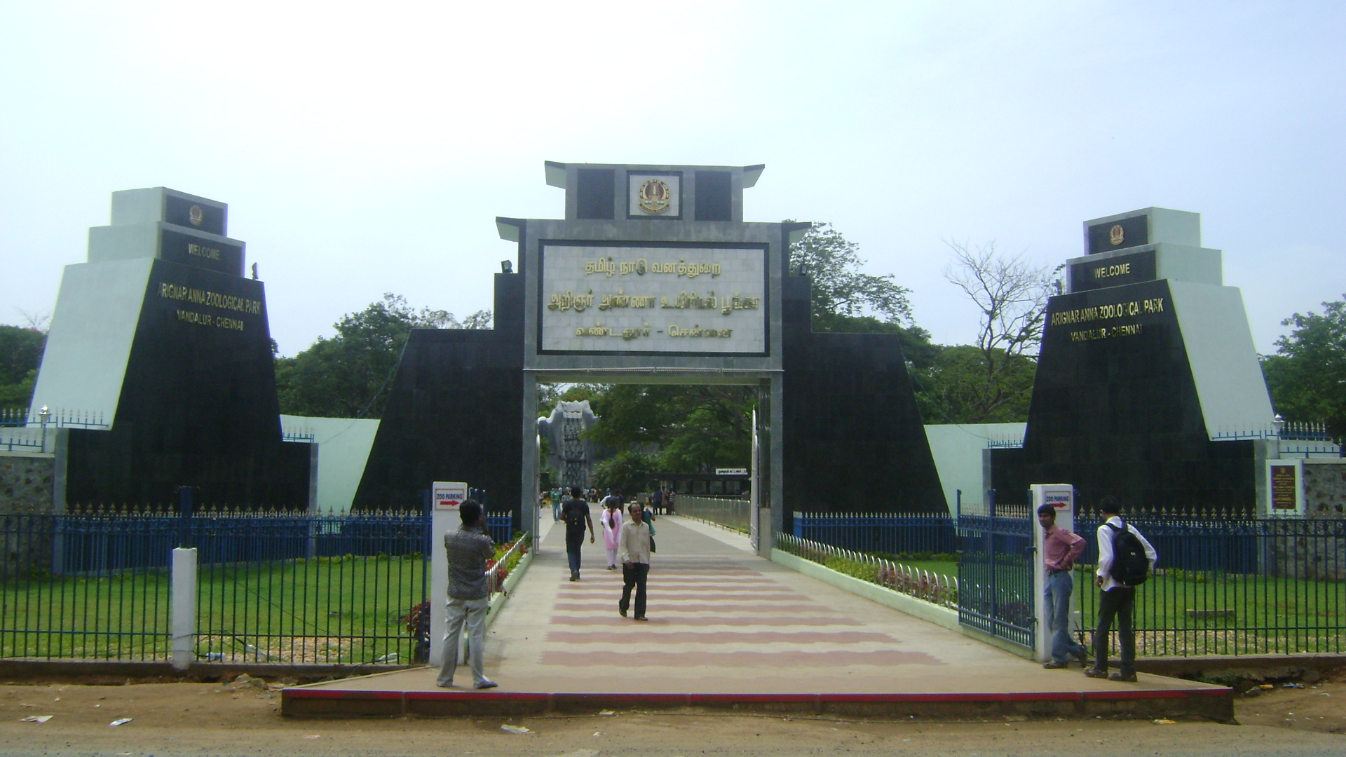 Main entrance at Vandalur Zoo, taken on 18 August 2012